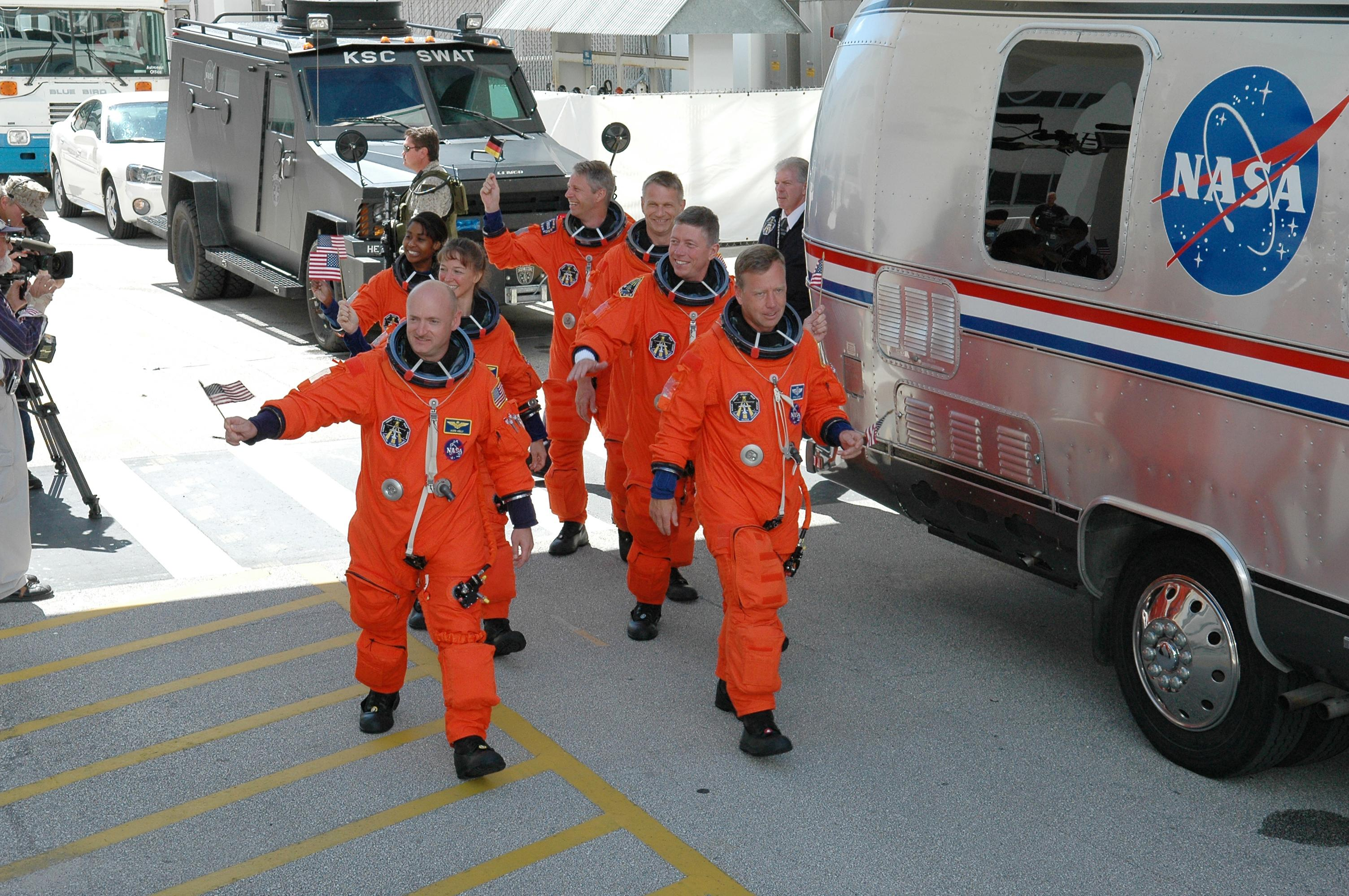 KENNEDY SPACE CENTER, FLA. – Waving flags for the Fourth of July, the STS-121 crew heads for the Astrovan and the ride to Launch Pad 39B for a third launch attempt. Leading the way are Pilot Mark Kelly (left) and Commander Steven Lindsey (right). Behind them are, left and right, Mission Specialists (second row) Lisa Nowak and Michael Fossum; (third row) Stephanie Wilson and Piers Sellers; and (at the rear) Thomas Reiter, who represents the European Space Agency. The July 2 launch attempt was scrubbed due to the presence of showers and thunderstorms within the surrounding area of the launch site. The launch of Space Shuttle Discovery on mission STS-121 is the 115th shuttle flight and the 18th U.S. flight to the International Space Station. During the 12-day mission, the STS-121 crew will test new equipment and procedures to improve shuttle safety, as well as deliver supplies and make repairs to the International Space Station.